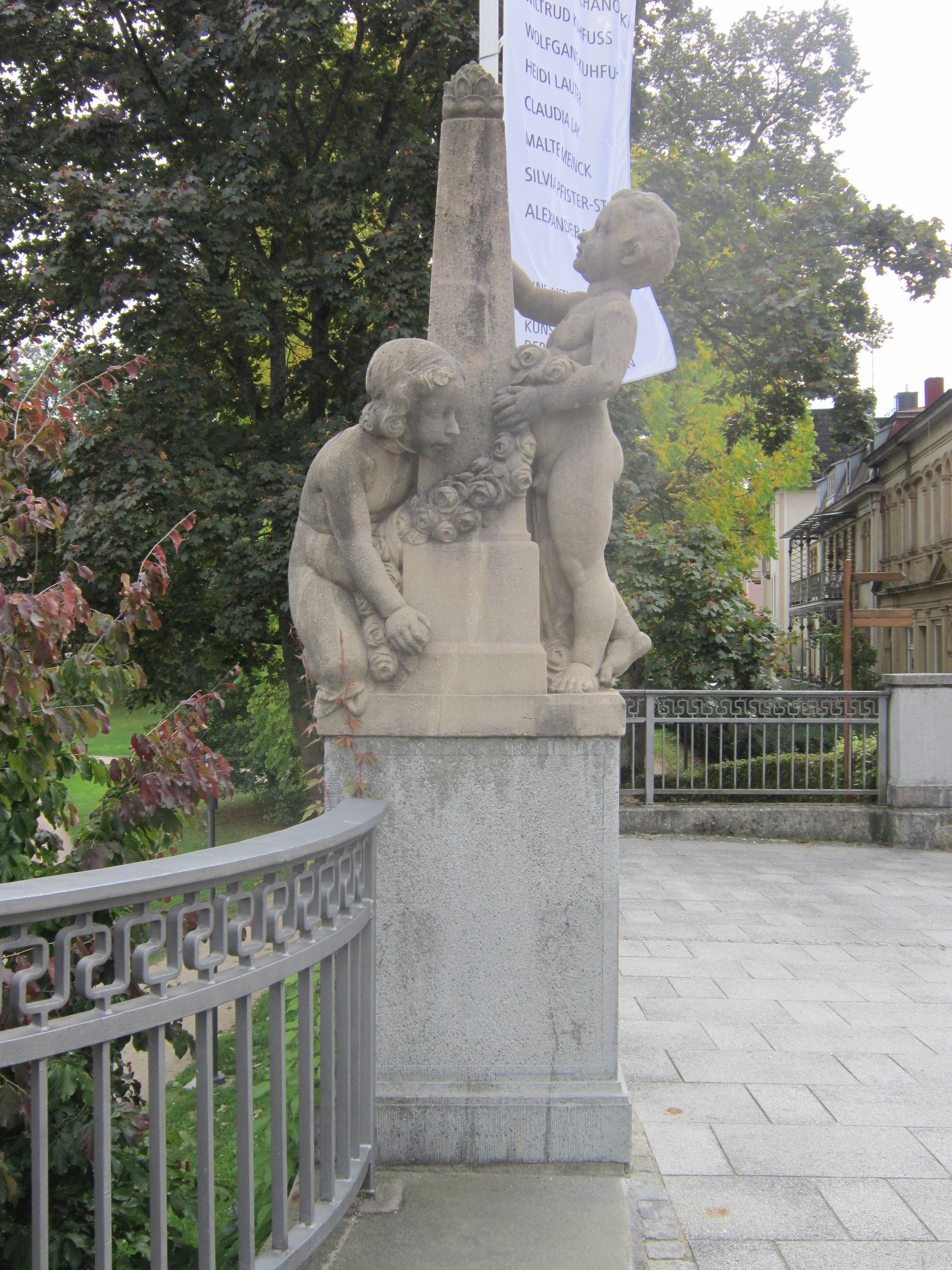 Sculpture at the south side of the "Ludwigsbrücke" in Bad Kissingen, a German spa town of Germany (Lower Franconia, Bavaria).